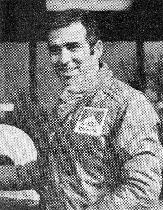 Turin (Italy), "Vincenzo Lancia" Museum, February 21, 1973. French rally driver Jean-Claude Andruet presented as a new recruitment of Lancia–Marlboro racing team for the 1973 season.